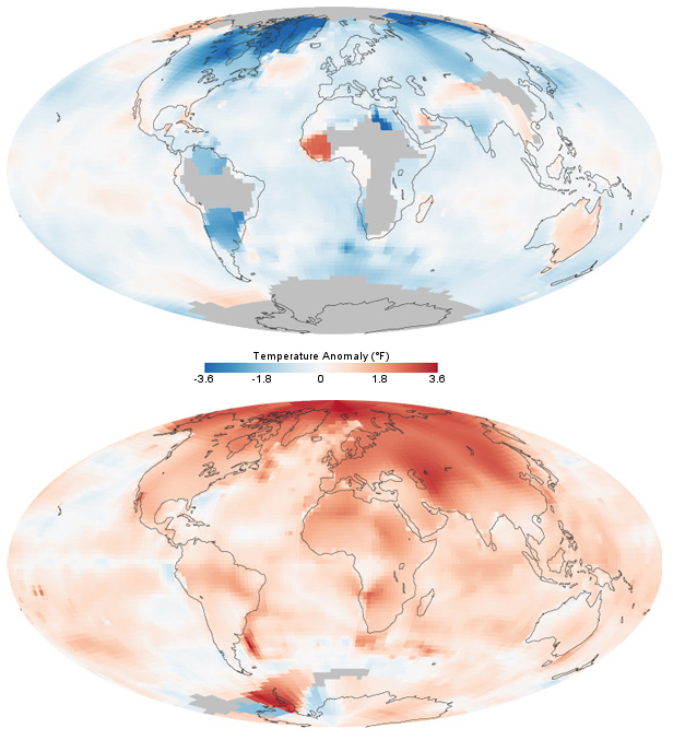 From the public-domain source (US Environmental Protection Agency (US EPA), 2012): Temperatures across the world in the 1880s and the 1980s, as compared to average temperatures from 1951 to 1980.